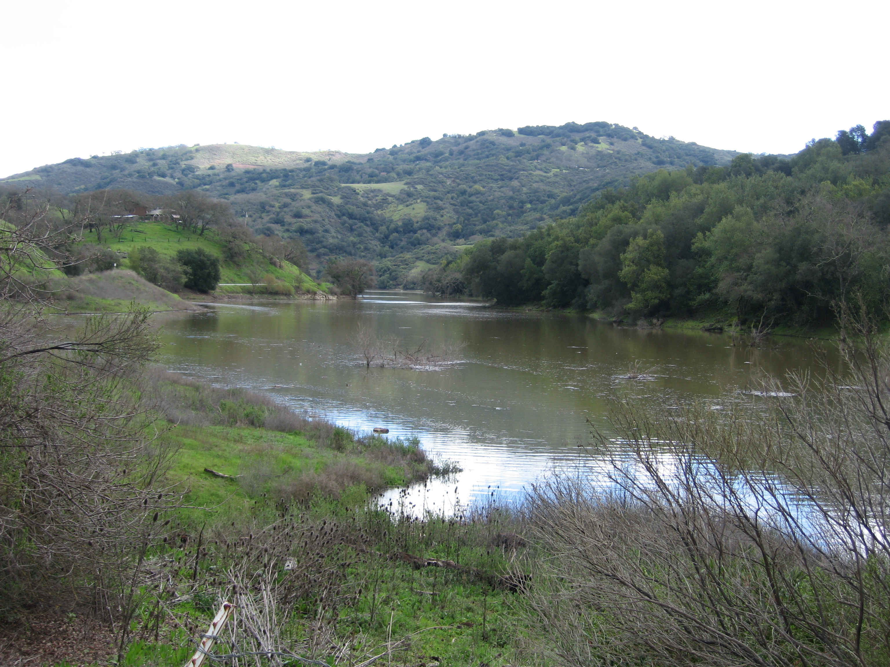 Almaden Reservoir , New Almaden, San Jose, CA after rainfall